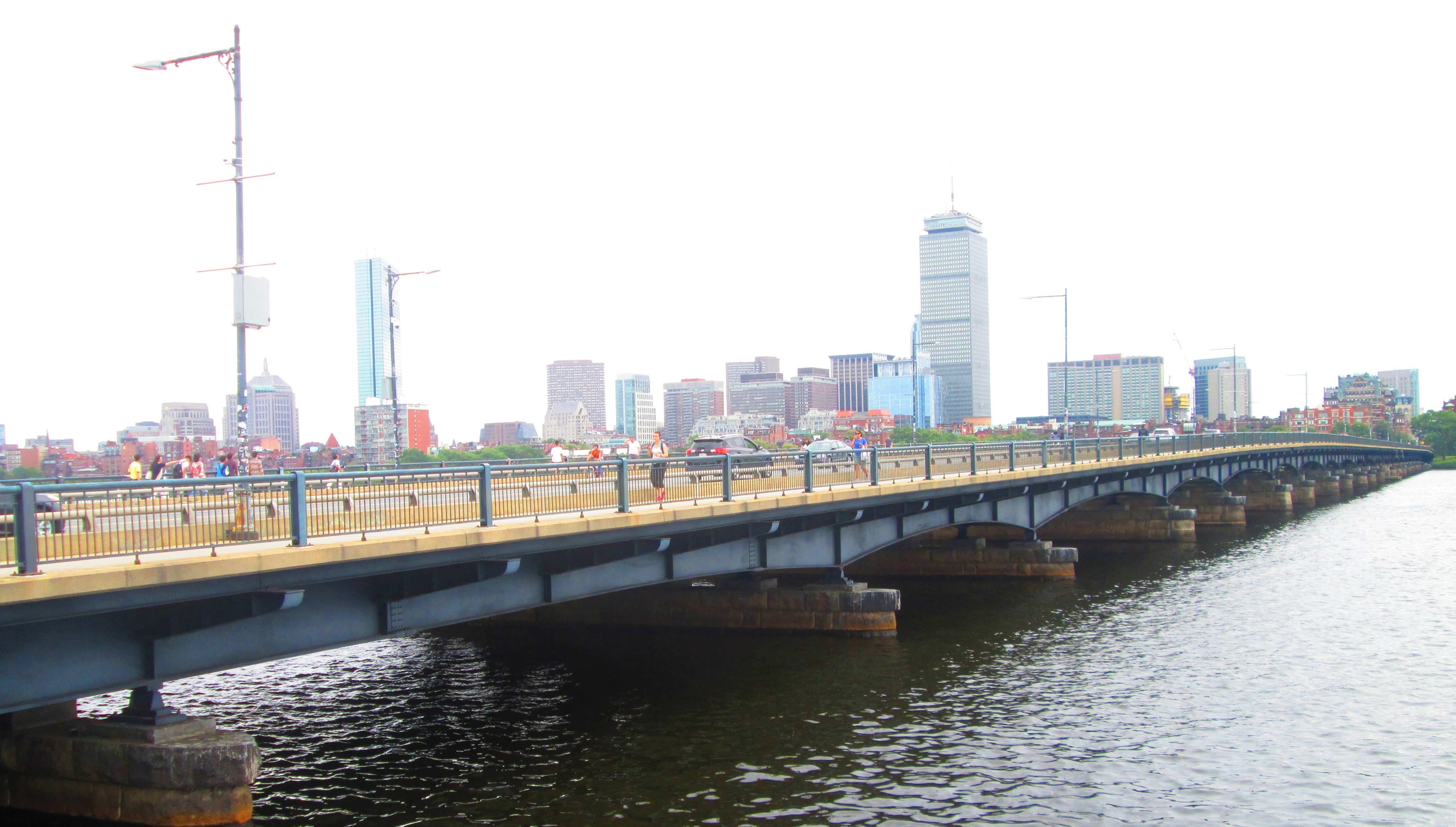 The Harvard Bridge as seen from Memorial Drive in Cambridge, Massachusetts.